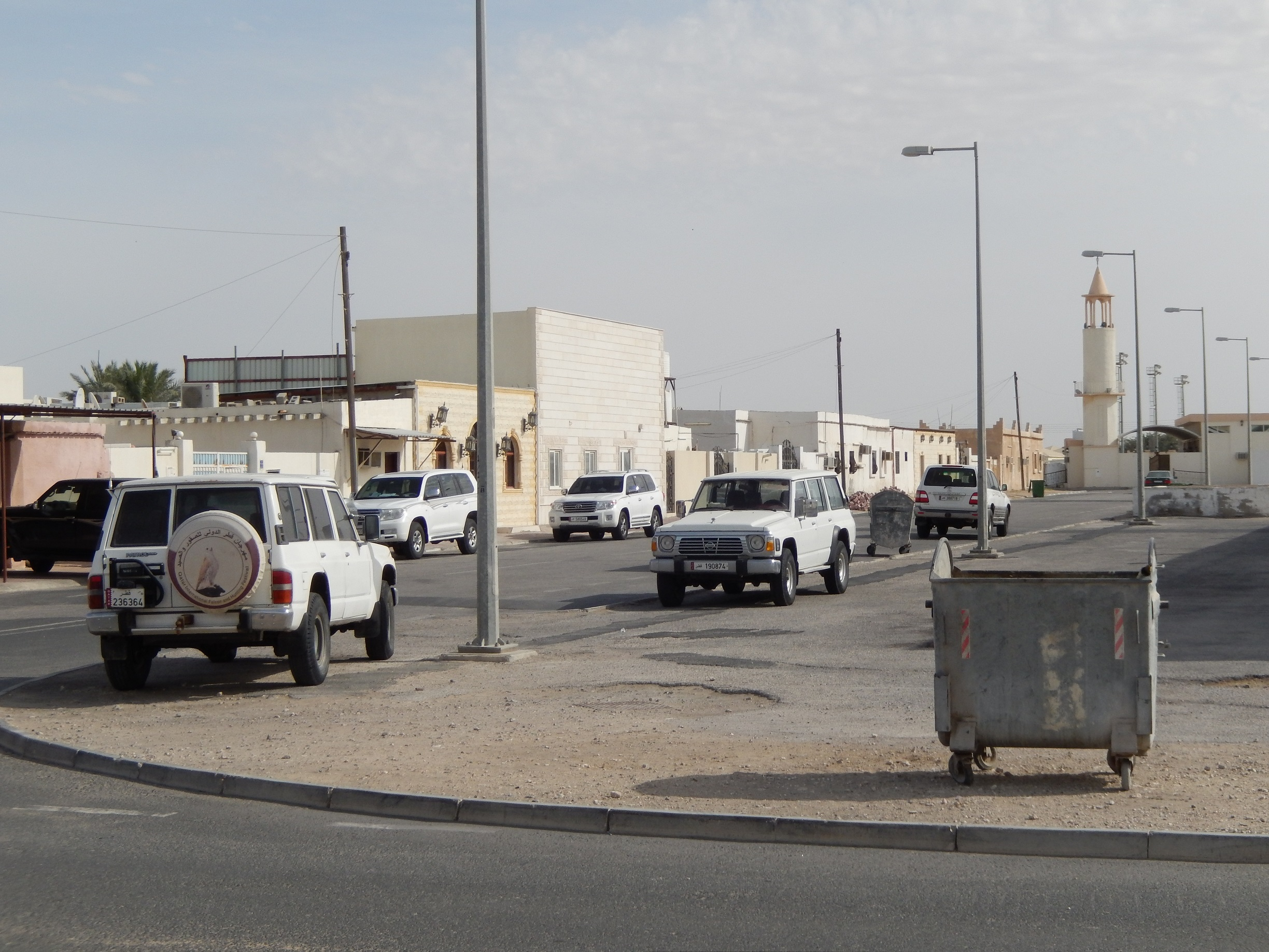 The centre of Al Jumailiyah; in the southern part of the village (municipality of Al Rayyan, Qatar).